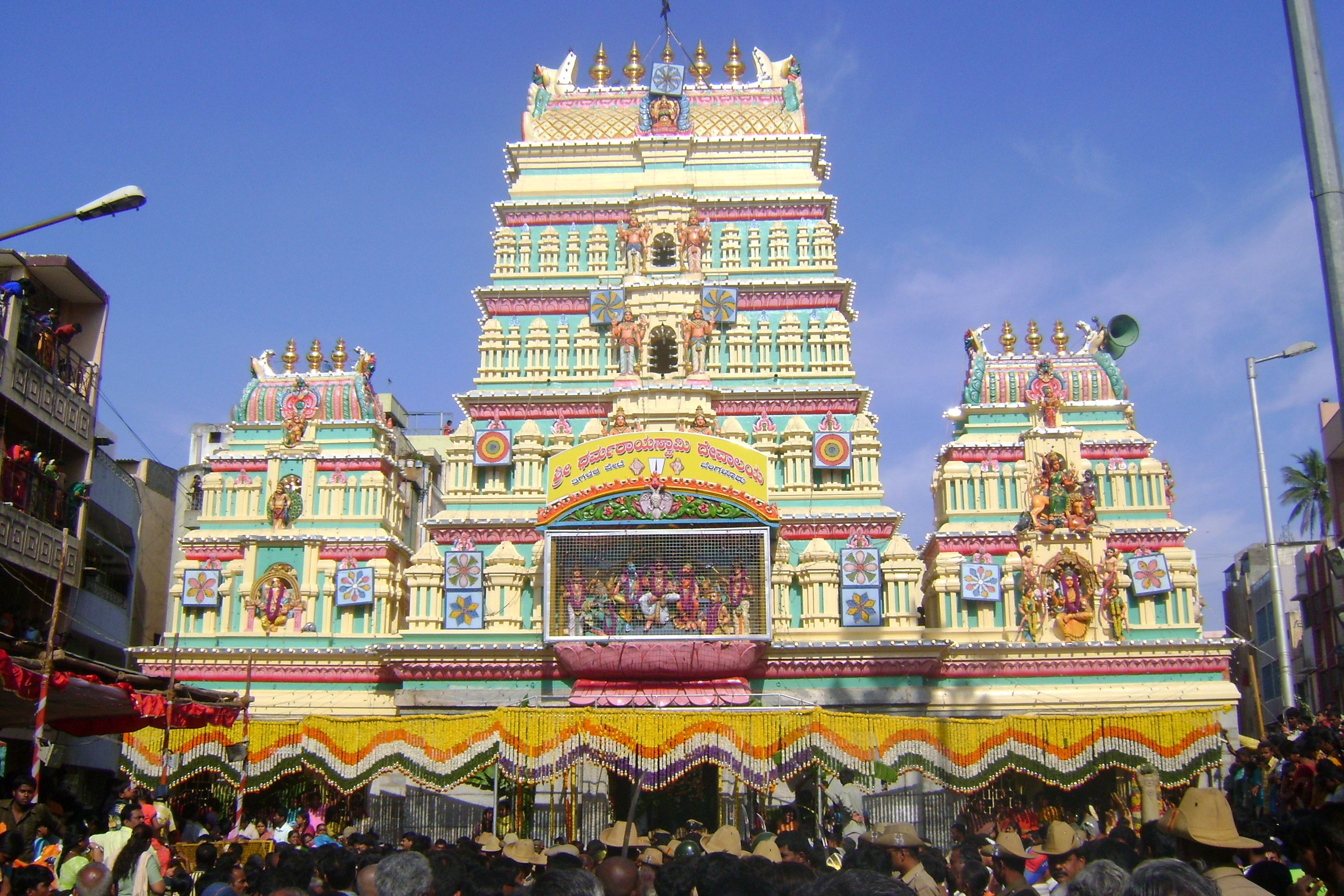 The Dharmaraya Swamy Temple is unique as its dedicated to the Pandavas and Krishna and not found anywhere in India. The exact historical background of the city and the history of the temple like the name of the builder,date of construction is not clear.